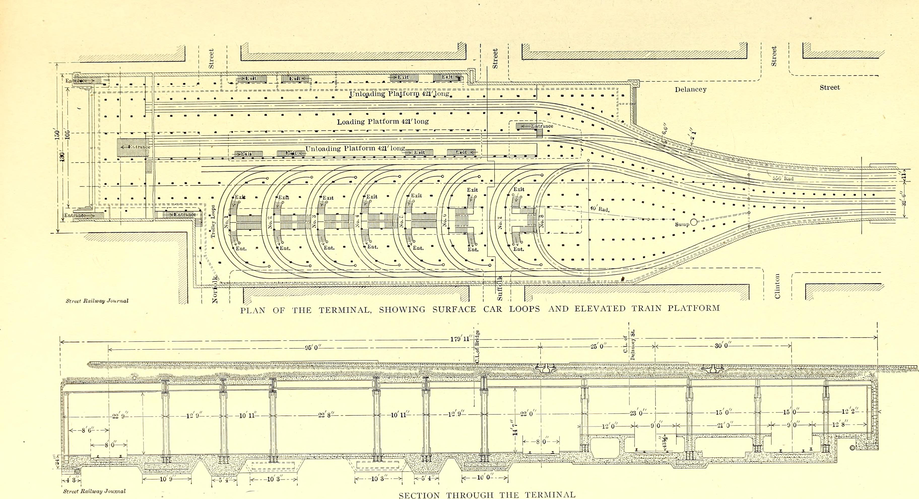 Title: The Street railway journal Year: 1884 (1880s) Authors: Subjects: Street-railroads Electric railroads Transportation Publisher: New York : McGraw Pub. Co. Text Appearing Before Image: April iir i9o8.) STREET RAILWAY JOURNAL. Text Appearing After Image: 595 vated tracks near the NewYork tower, and tlien willbe switched to their owntracks at the throat of thetunnel. By this means itwill be possible to carry onthe work of demolishingthe present surface carstub terminal. In Brook-lyn the elevated structur-ewas extended several hun-dred feet across to thebridge plaza to connectwith the elevated tracks onthe bridge proper. At the street level theentrances and e.xits to theelevated terminal and sur-face loops will be protectedby stair houses of artisticdesign finislied in terracotta. In addition therewill be an artistic shelter atwhich the cars of the NewYork City Railway Com-pany, which are operatedto and from Brooklyn onthe north side of the bridge,will stop. Many of thepassengers on the NewYork City Railway de-stined to points in Brook-lyn will transfer at the NewYork approach to theBrooklyn cars and the shel-ter will afford ample pro-tection. These buildingsare all shown in the accom-panying illustrations. The station will be cooledby